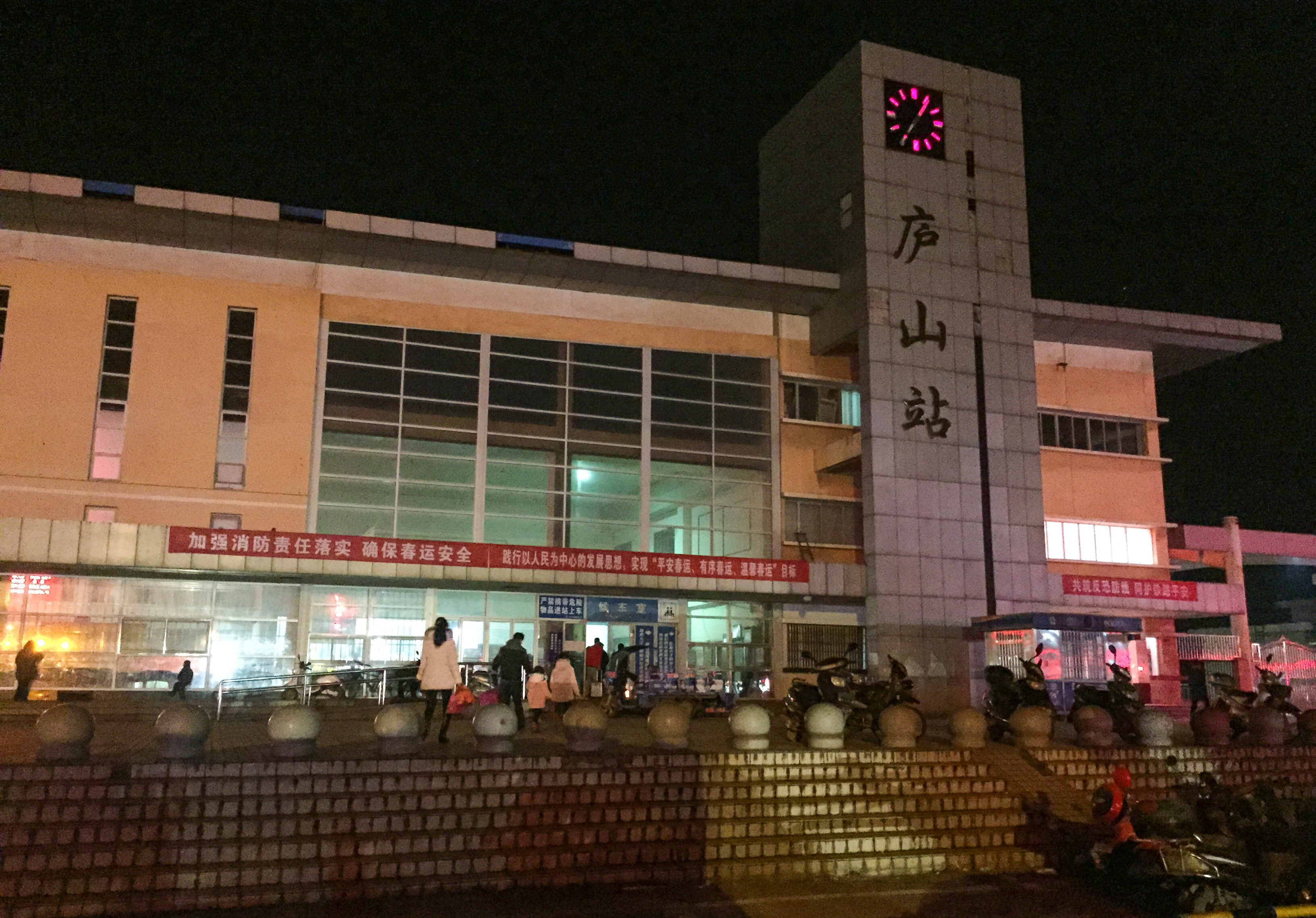 Formerly Shahejie Railway Station. In fact, this station is not that convenient for passengers to Lushan.